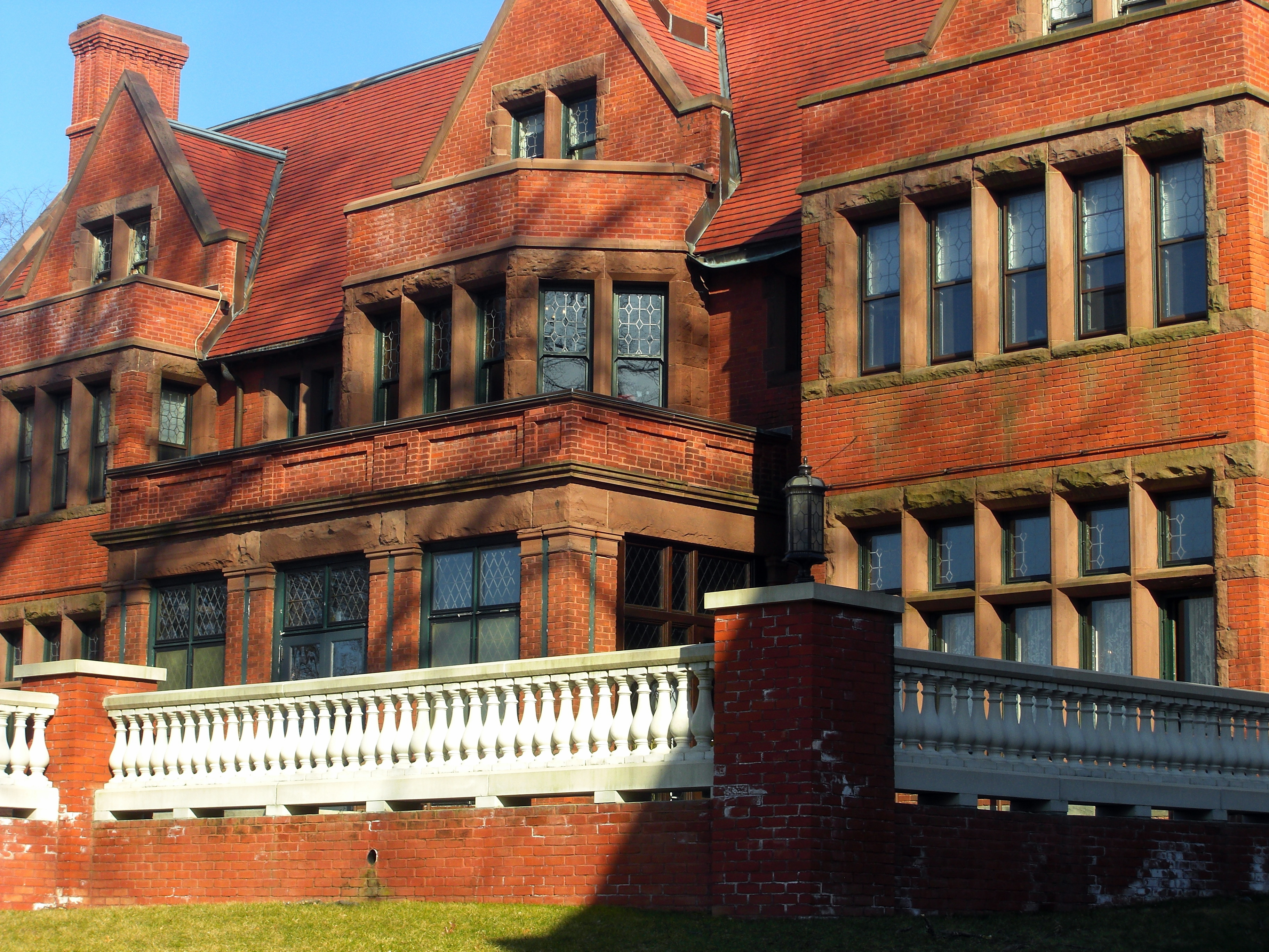 Temple Sharey Tefilo Israel in the Montrose Park Historic District